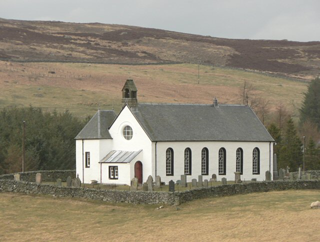 Amulree and Strathbraan Church, Amulree